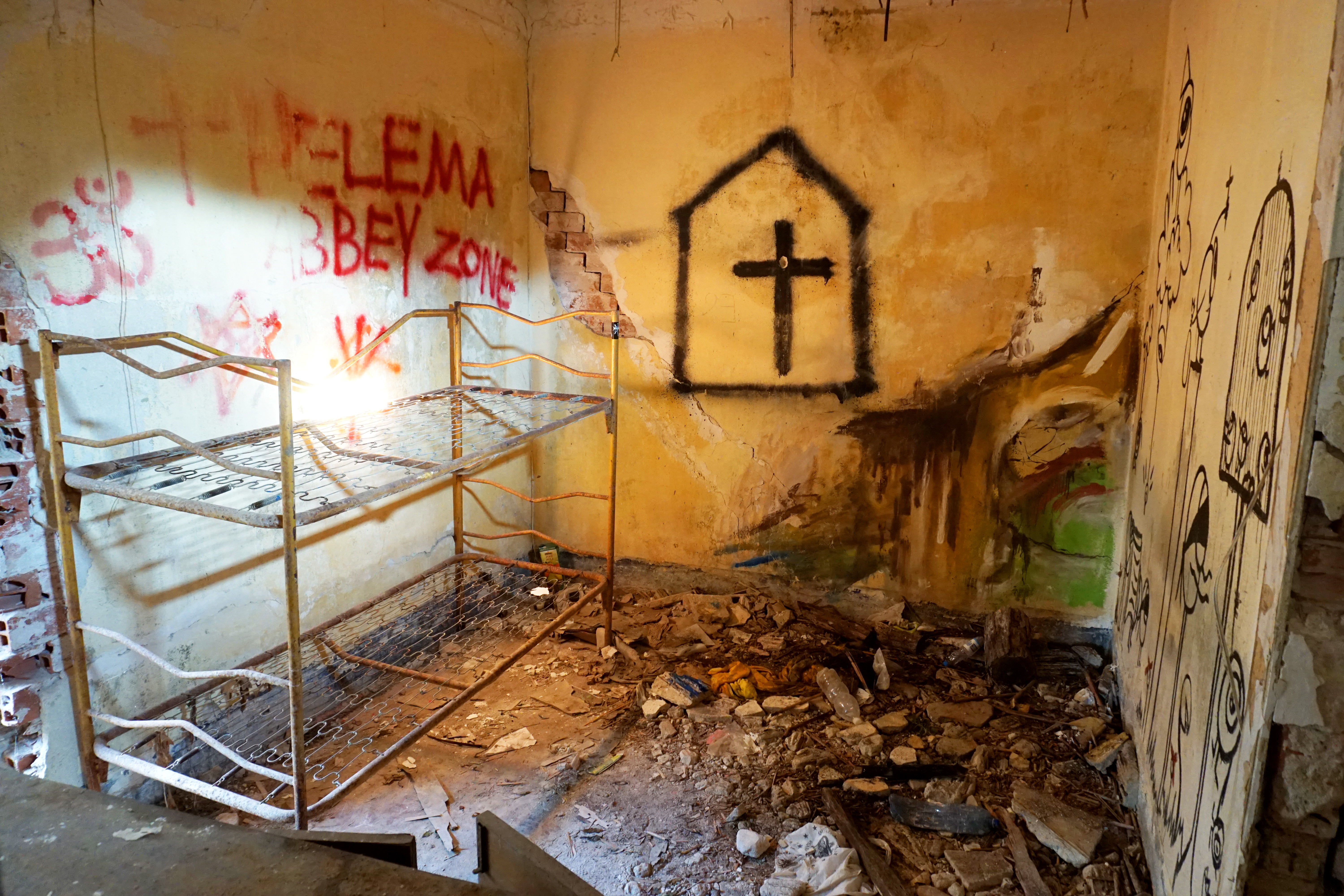 Wall paintings in a room in the Abbey of Thelema in Cefalù, Sicily, Italy, meant to be used as a typing room.